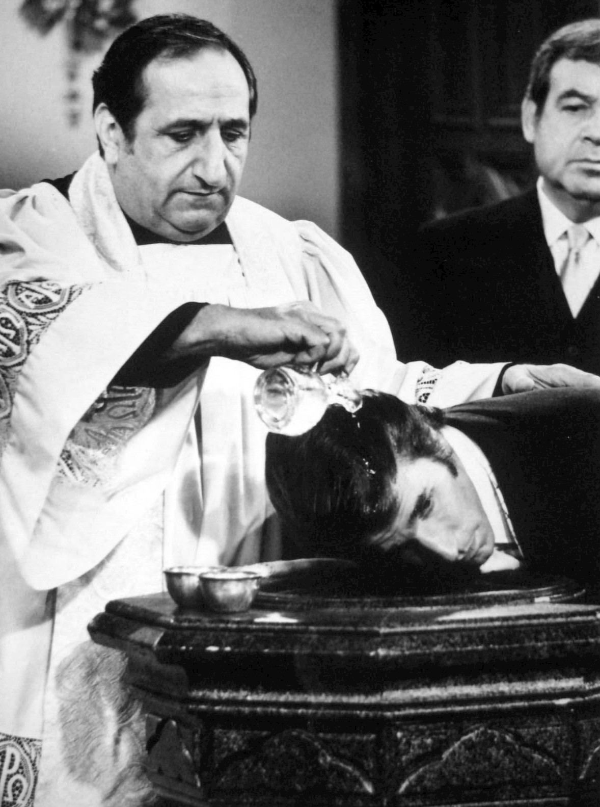 Photo from the television series ;Happy Days. The episode is "Fonzie's Baptism". Al Molinaro plays the priest.